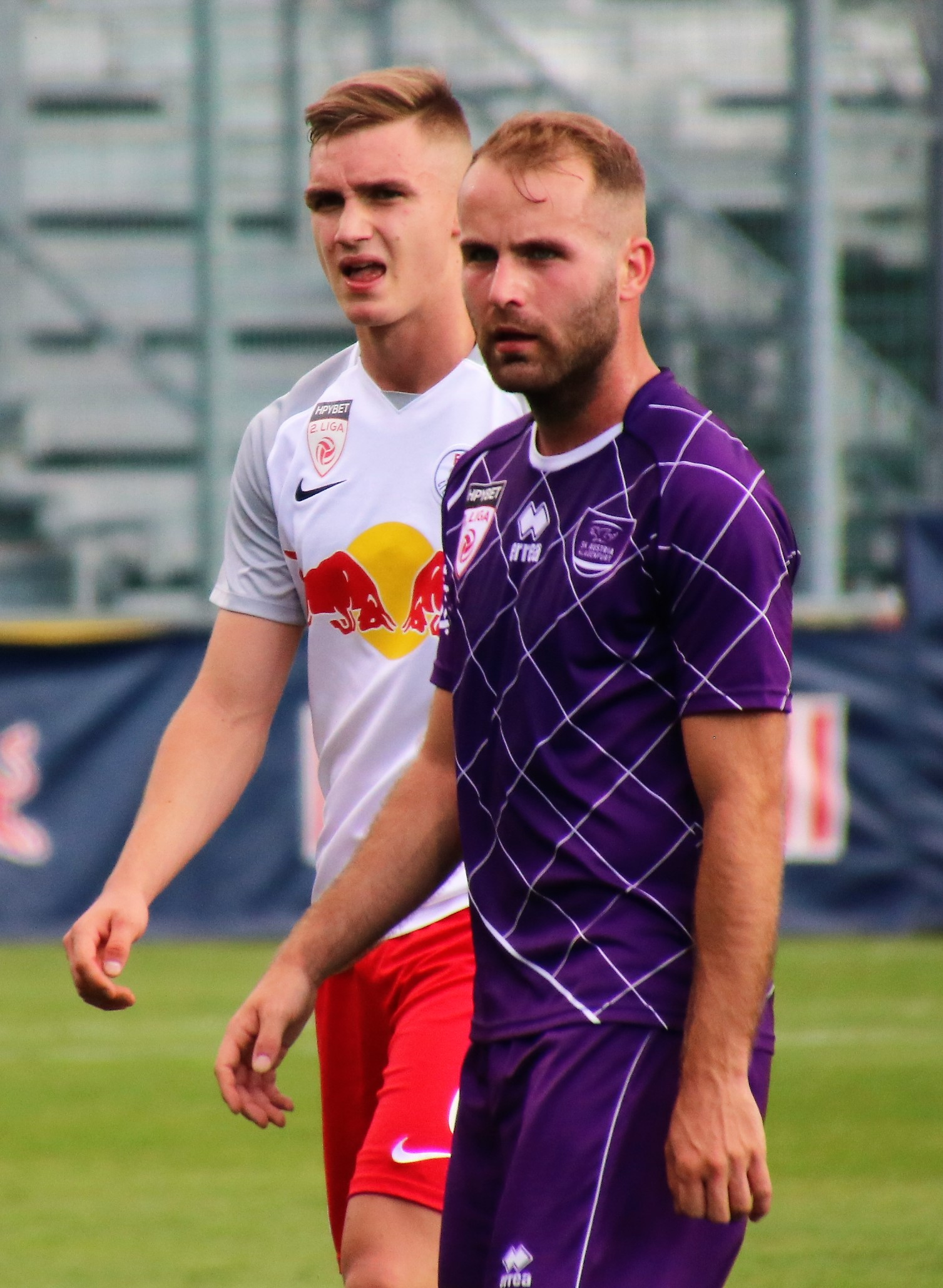 league match Austria 2nd league